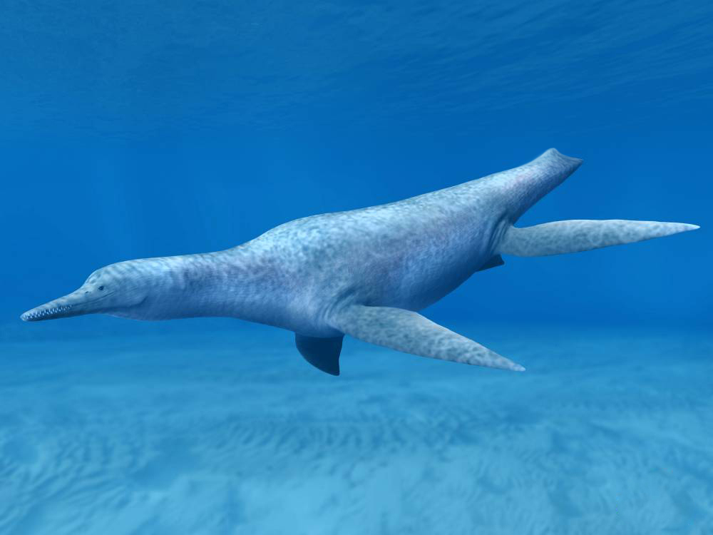 Life restoration of Mauriciosaurus fernandezi (INAH CPC RFG 2544 P.F.1)